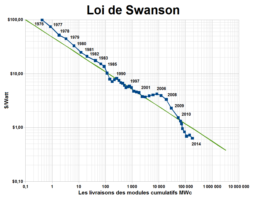 The green line shows Swanson's law, a 20% decrease in price for every doubling of cumulative shipped photovoltaics. The blue line shows actual world wide module shipments vs. average module price, from 1976 to 2014. Prices are in 2011 dollars. Data is from Figure 1, ITRPV Edition 2015. compare to current spot-market prices here.